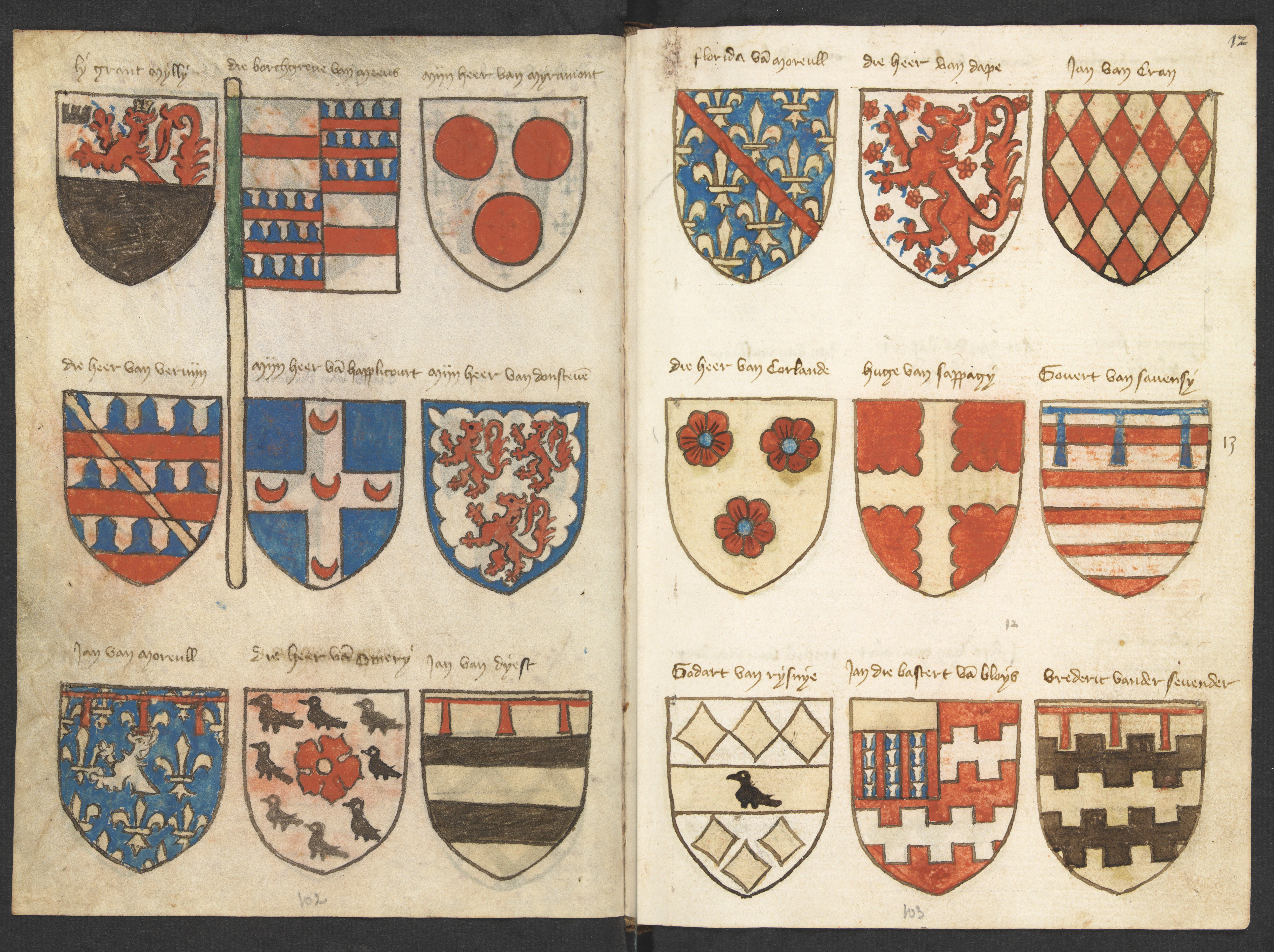 Lefthand side folio 011v; righthand side folio 012r from the Beyeren armorial / Wapenboek Beyeren